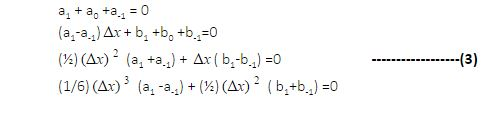 Co-efficients of three point Hermitian formula.